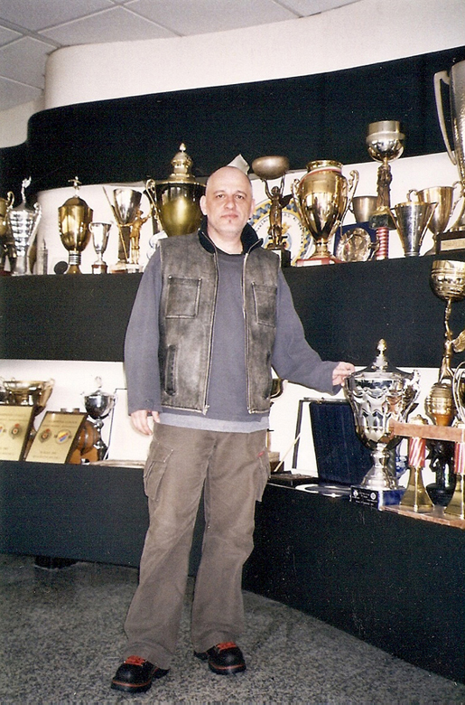 Author Prvoslav Vujcic in the trophy room of FK Partizan, 2004. Српски (ћирилица): Књижевник Првослав Вујчић у трофејној сали ФК Партизан, 2004. године.